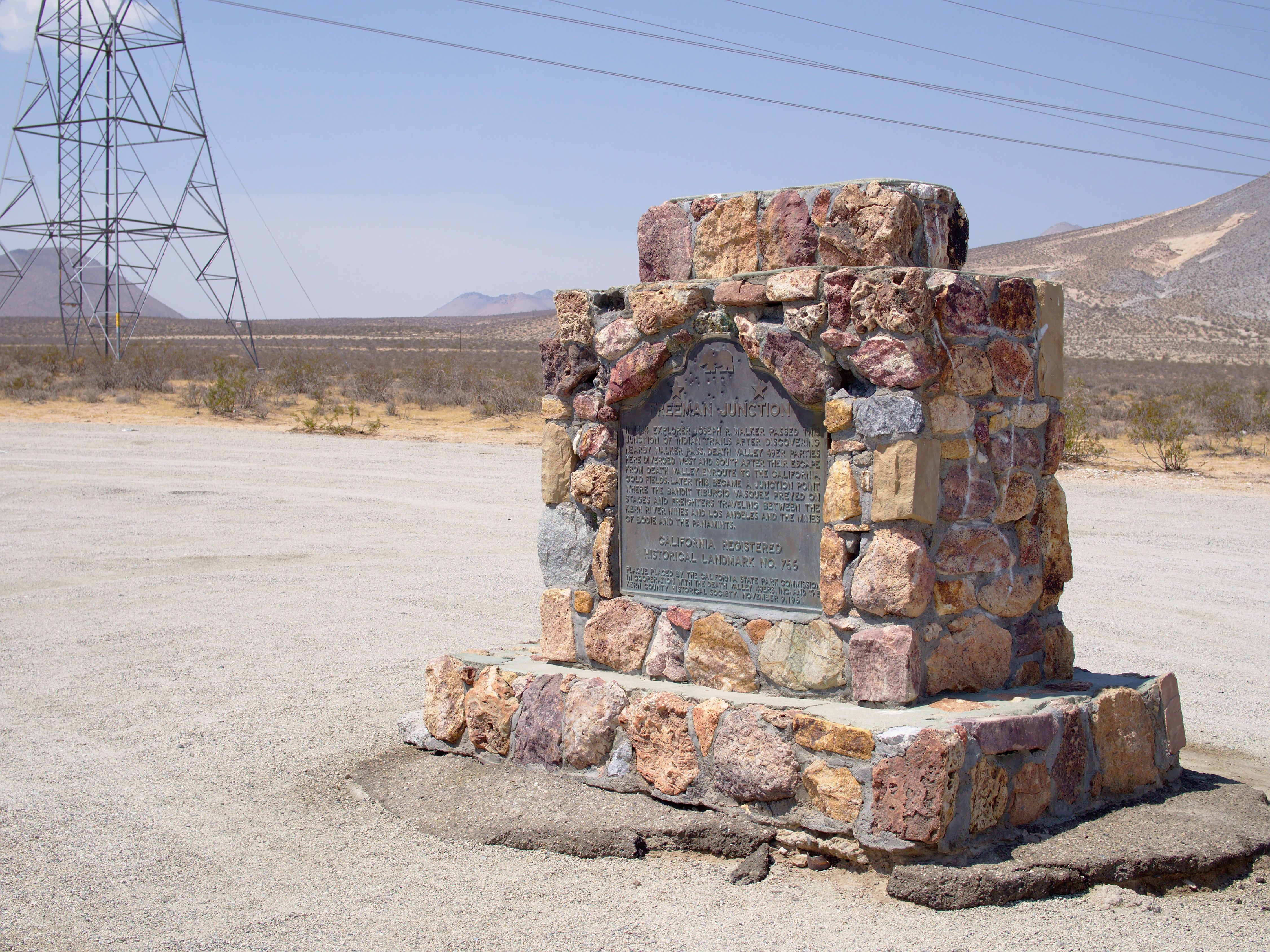 Monument plaque for California Historical Landmark 766, Freeman Junction, off of SR 178